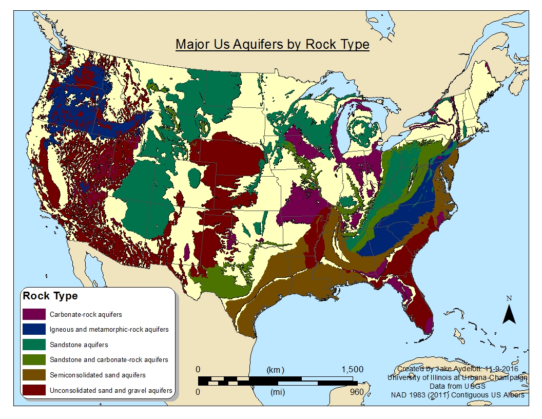 This map show major aquifers in the contiguous US by what type of material they flow through such as sandstone or unconsolidated material. The data for this map comes from an USGS survey that took place between 2002 and 2003.